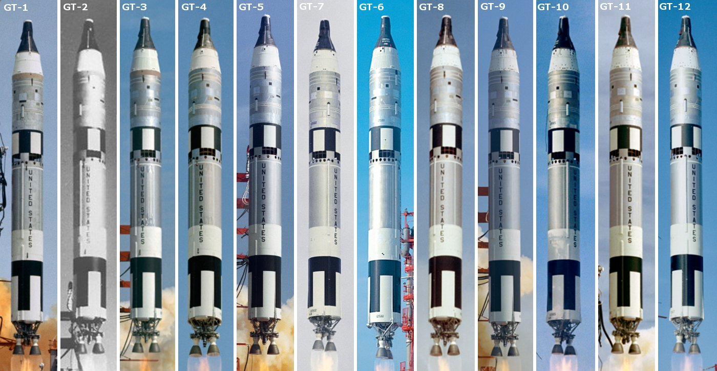 All Gemini launches in one picture. Current image was made with Gimp. Couldn't find a quality image for Gemini 2. Font: Sans Bold Font size: 72